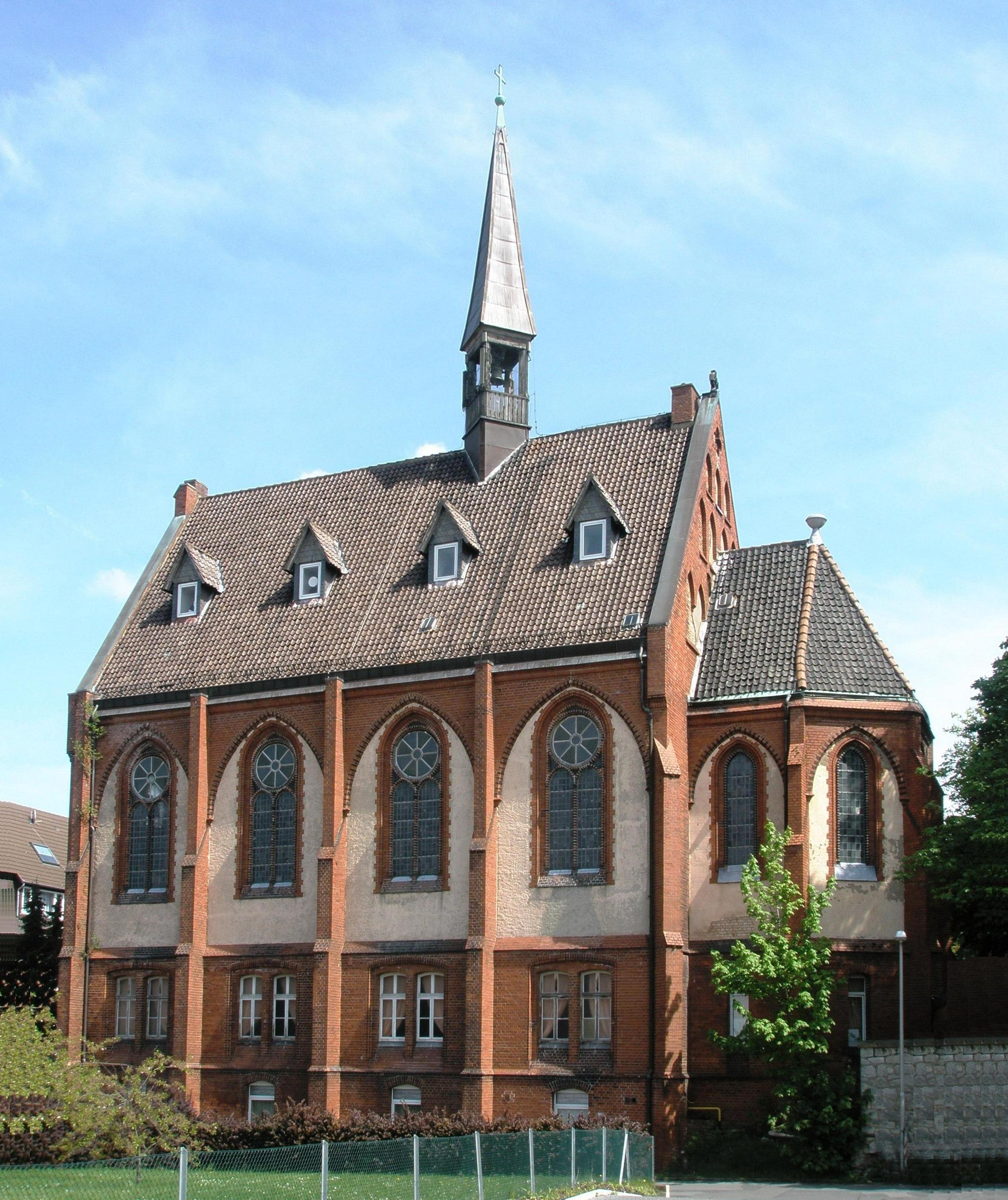 Hildesheim - Himmelthür. The Church of the Dormition of the Theotokos of the Serbian Orthodox Centre.